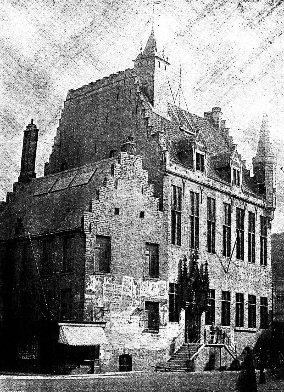 Picture of the 'Schepenhuis' in Mechelen, ca. 1902